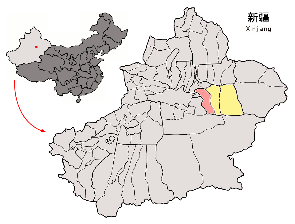 Location of Toksun County (pink) and Turpan Prefecture (yellow) within Xinjiang autonomous region of China Map drawn in september 2007 using various sources, mainly : Xinjiang Uygur autonomous region administrative regions GIS data: 1:1M, County level, 1990 Xinjiang Counties map from